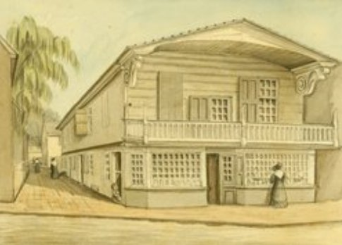 Loxley house 1897 as shown in "The Spirit of 76" newspaper